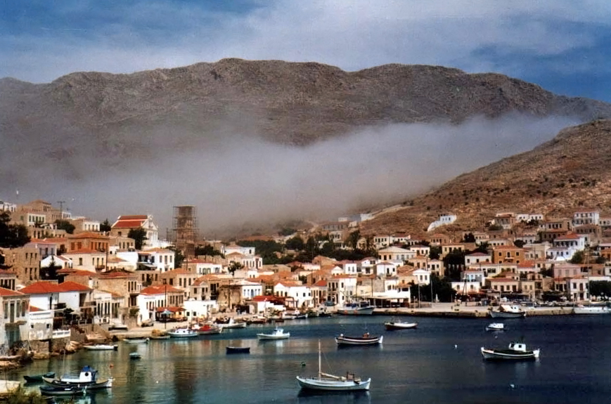 Halki town and harbour